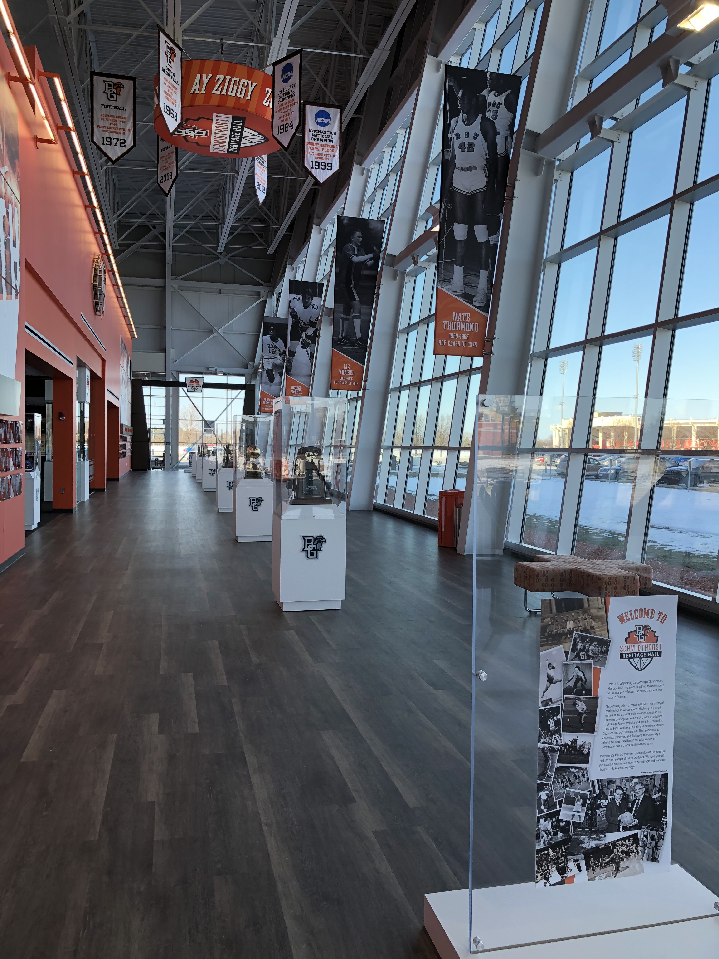 Heritage Hall of the Stroh Center. This facility was dedicated in February of 2020, replacing an earlier smaller hall of fame. The hall houses the Cochrane Cunningham Athletic Archives, formerly held in Memorial Hall/Anderson Arena of Bowling Green State University.